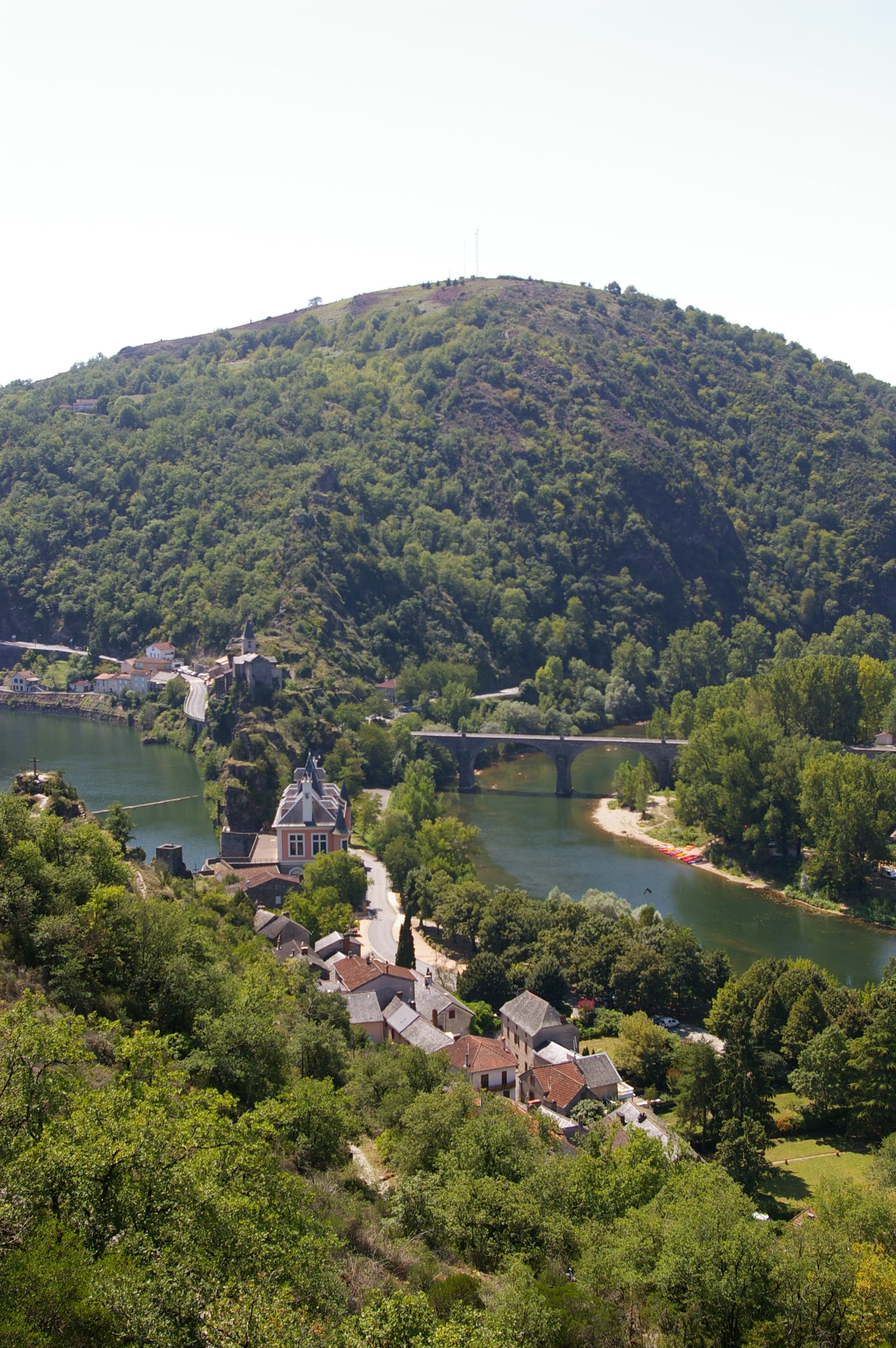 View of Ambialet, dept. Tarn